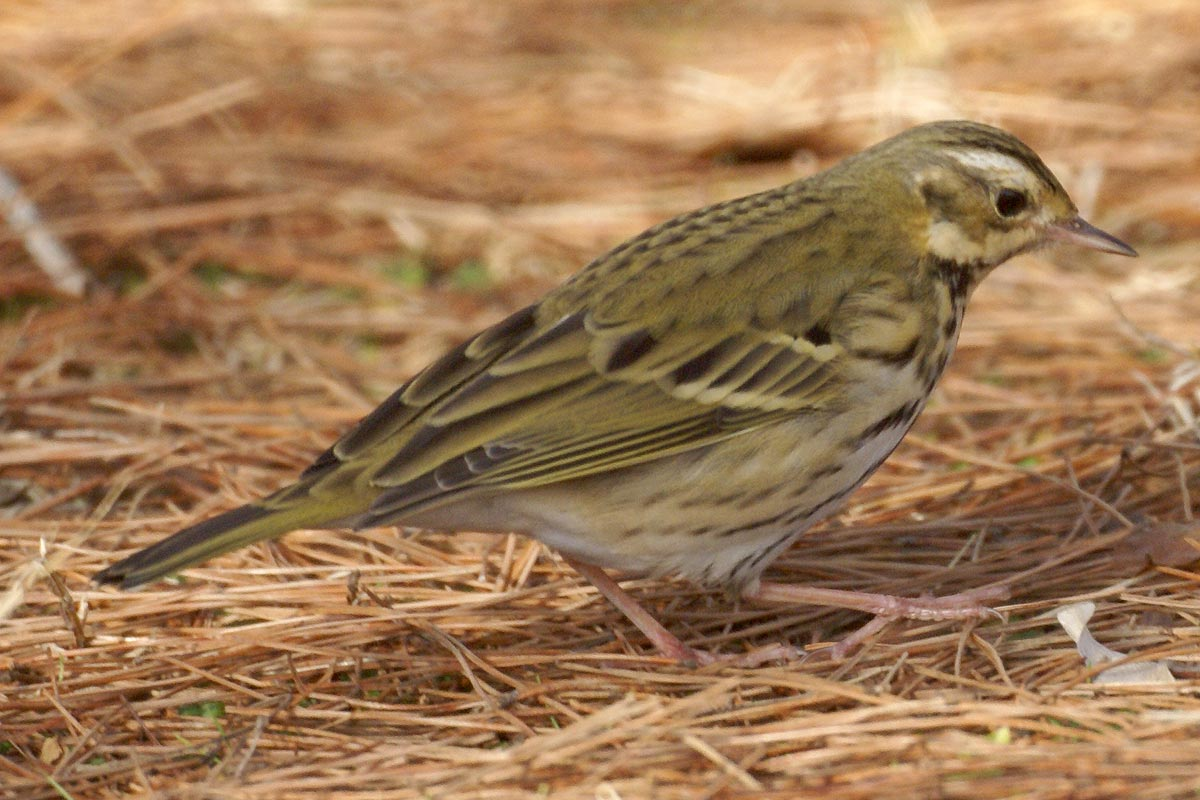 Anthus hodgsoni